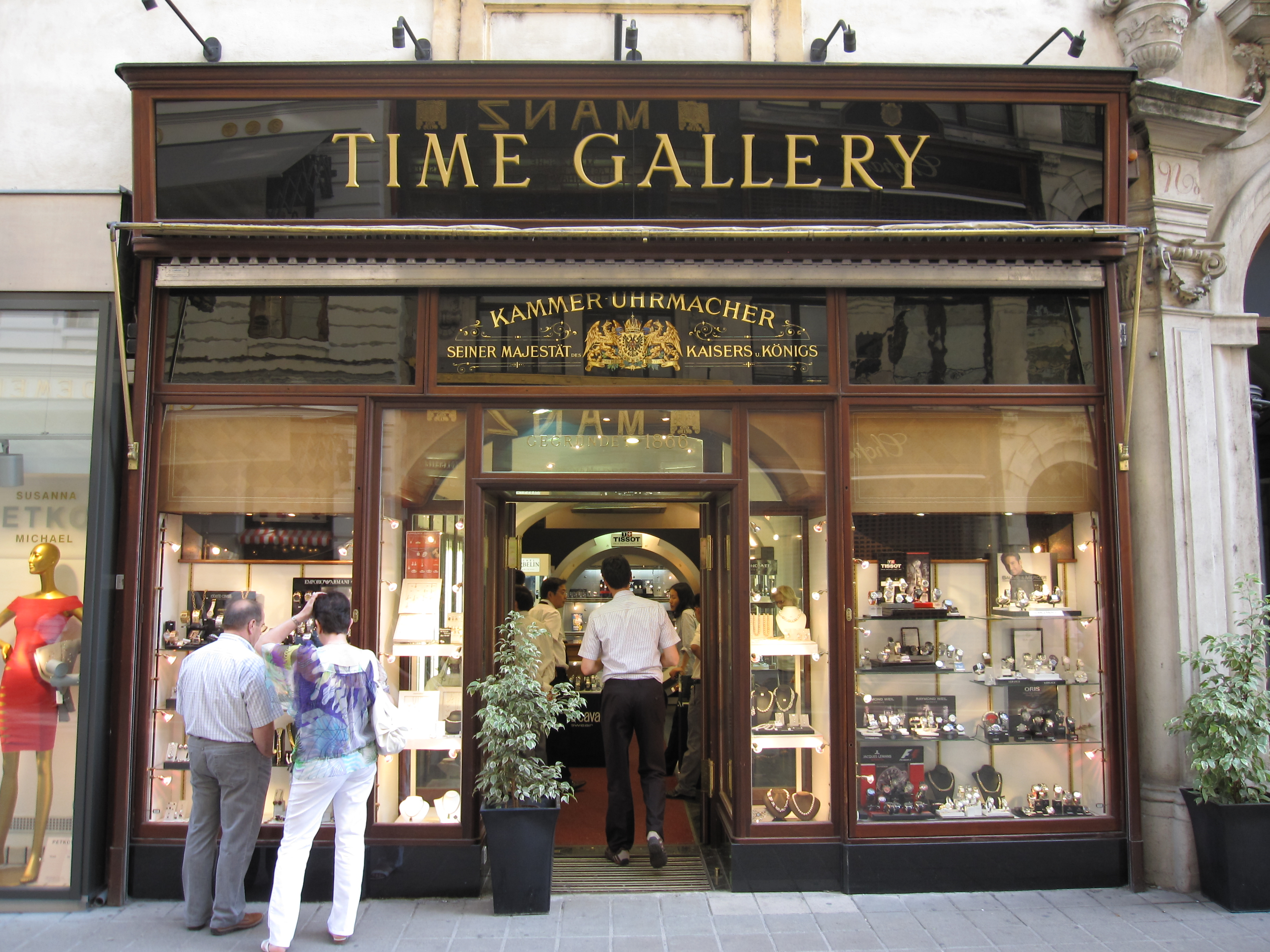 Former shop of Franz Morawetz, clock maker to the imperial and royal court, at Vienna's Kohlmarkt 11.